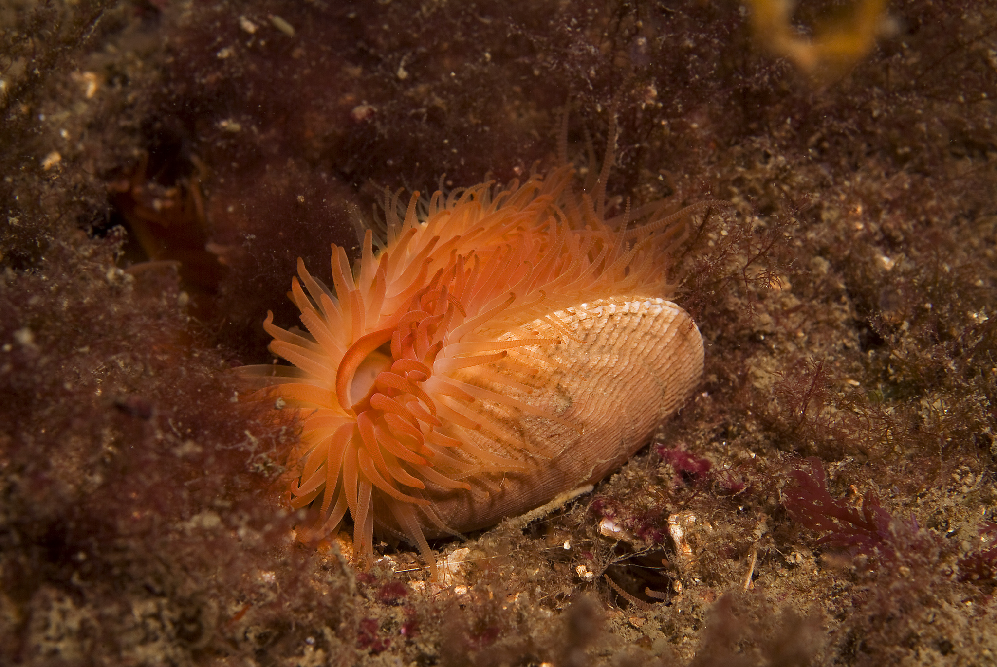 Photo of an underwater Flame shell, taken in Scotland in August 2012.